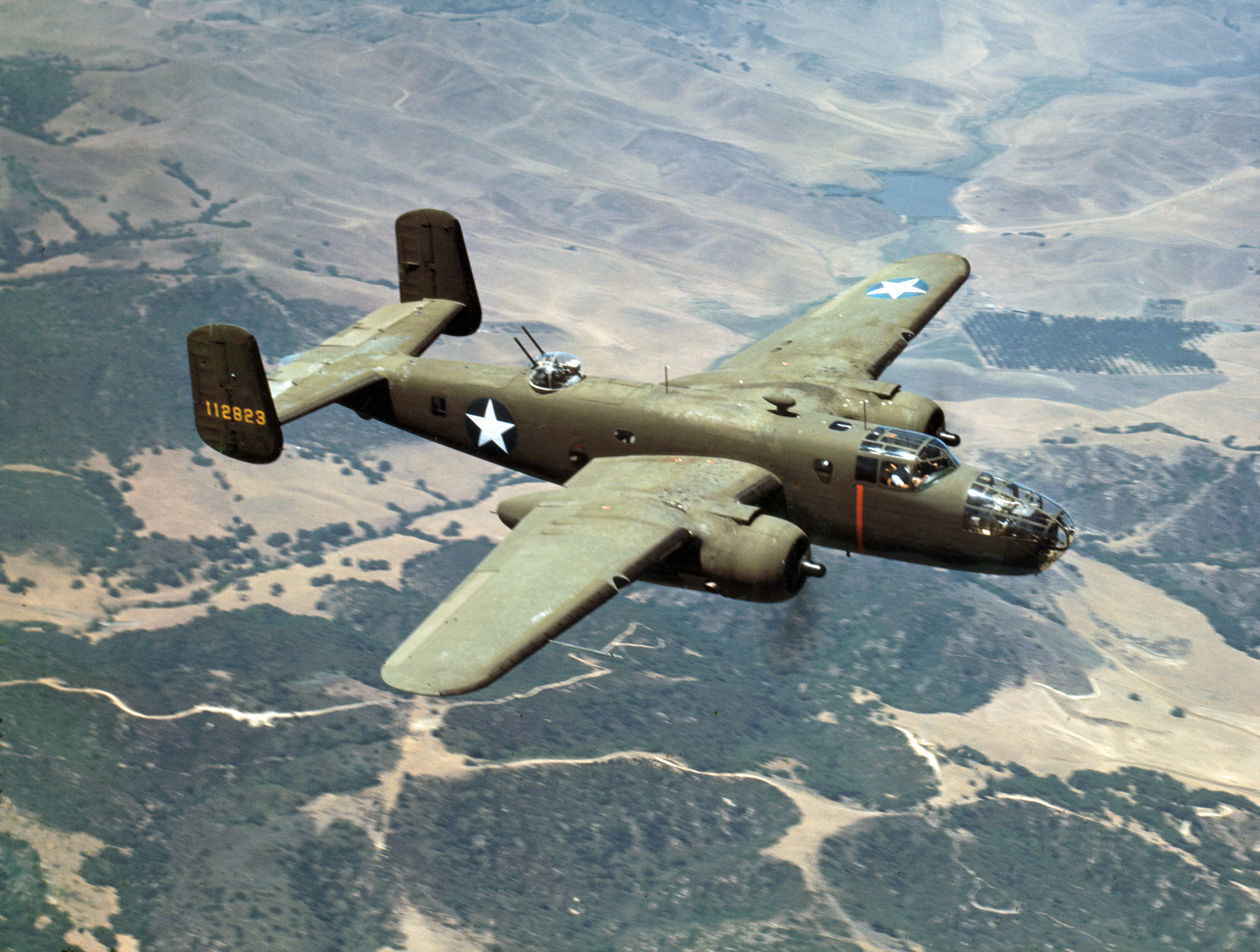 A U.S. Army Air Force North American B-25C Mitchell bomber (s/n 41-12823) in flight near Inglewood, California (USA).